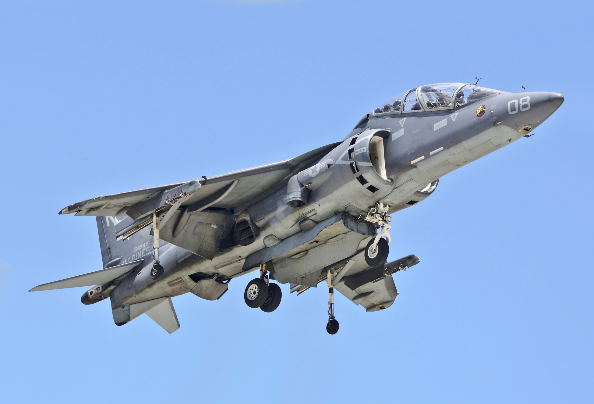 U.S. Marine Corps 1st Lt. John P. Nichol, a student replacement pilot with Marine Assault Training Squadron (VMAT) 203, conducts a vertical landing with a TAV-8B Harrier aircraft during Operation Angry Birds over Marine Corps Air Station Beaufort, S.C., May 13, 2014. VMAT-203 conducted the operation to provide flight time to students becoming certified Harrier pilots. (DoD photo by Lance Cpl. Austin A. Lewis, U.S. Marine Corps/Released)